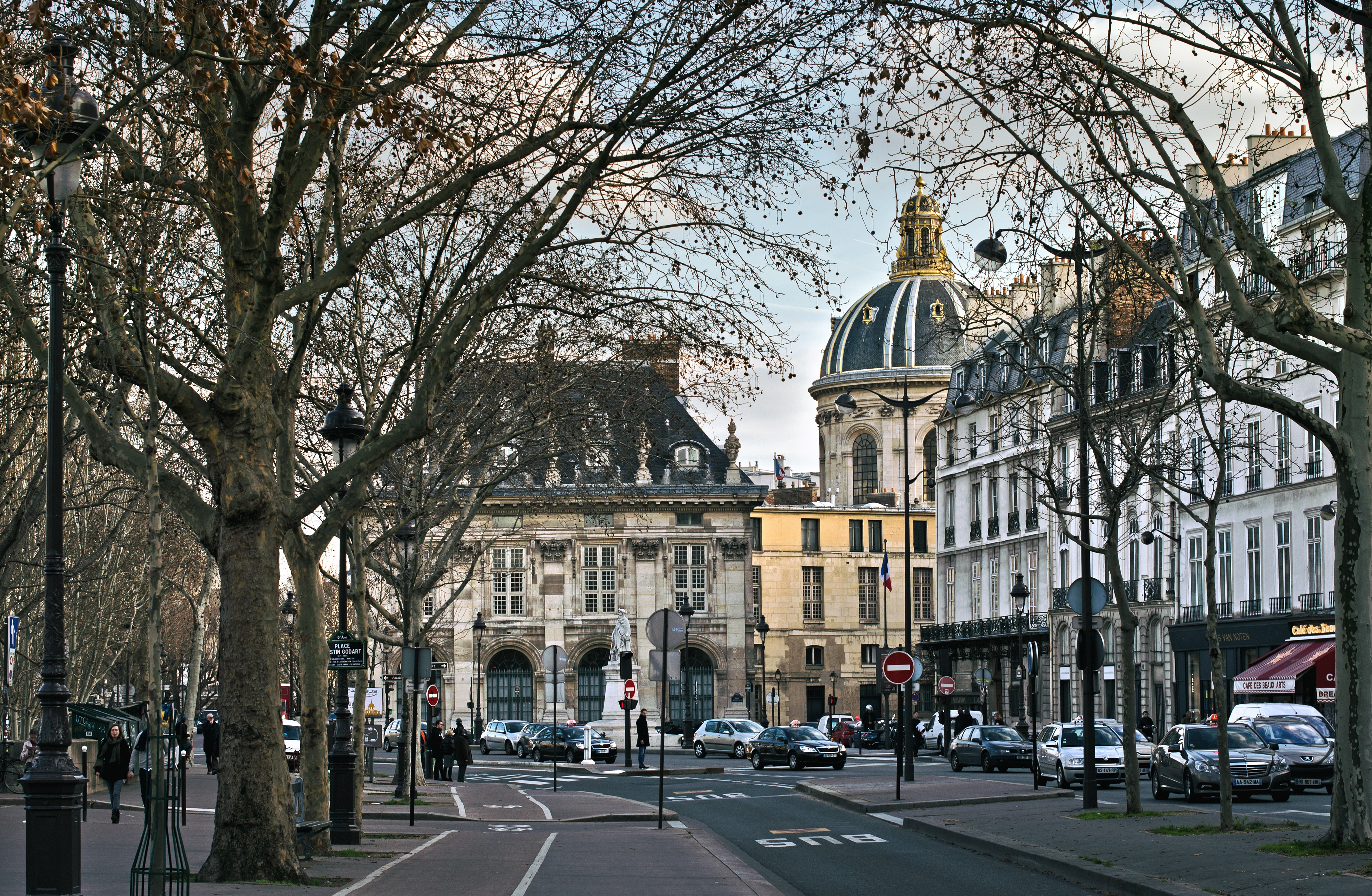 Place Justin-Godart, Paris.